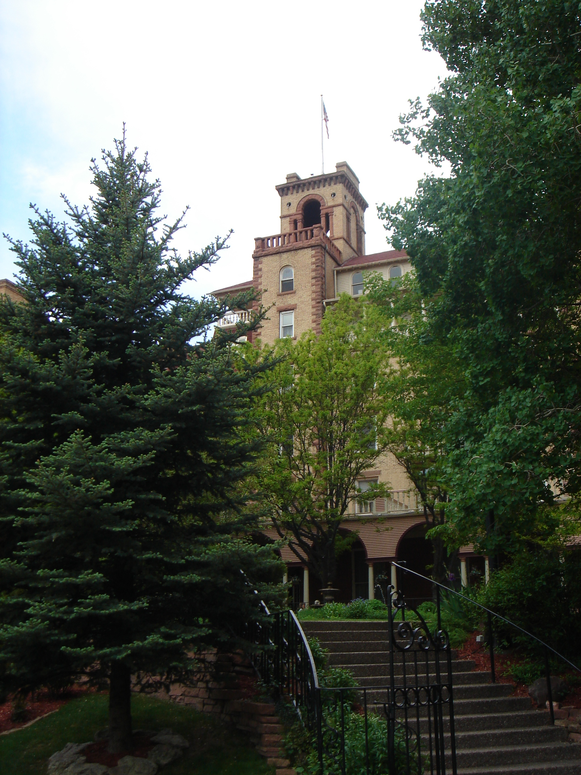 Image of the Hotel Colorado, 2007.